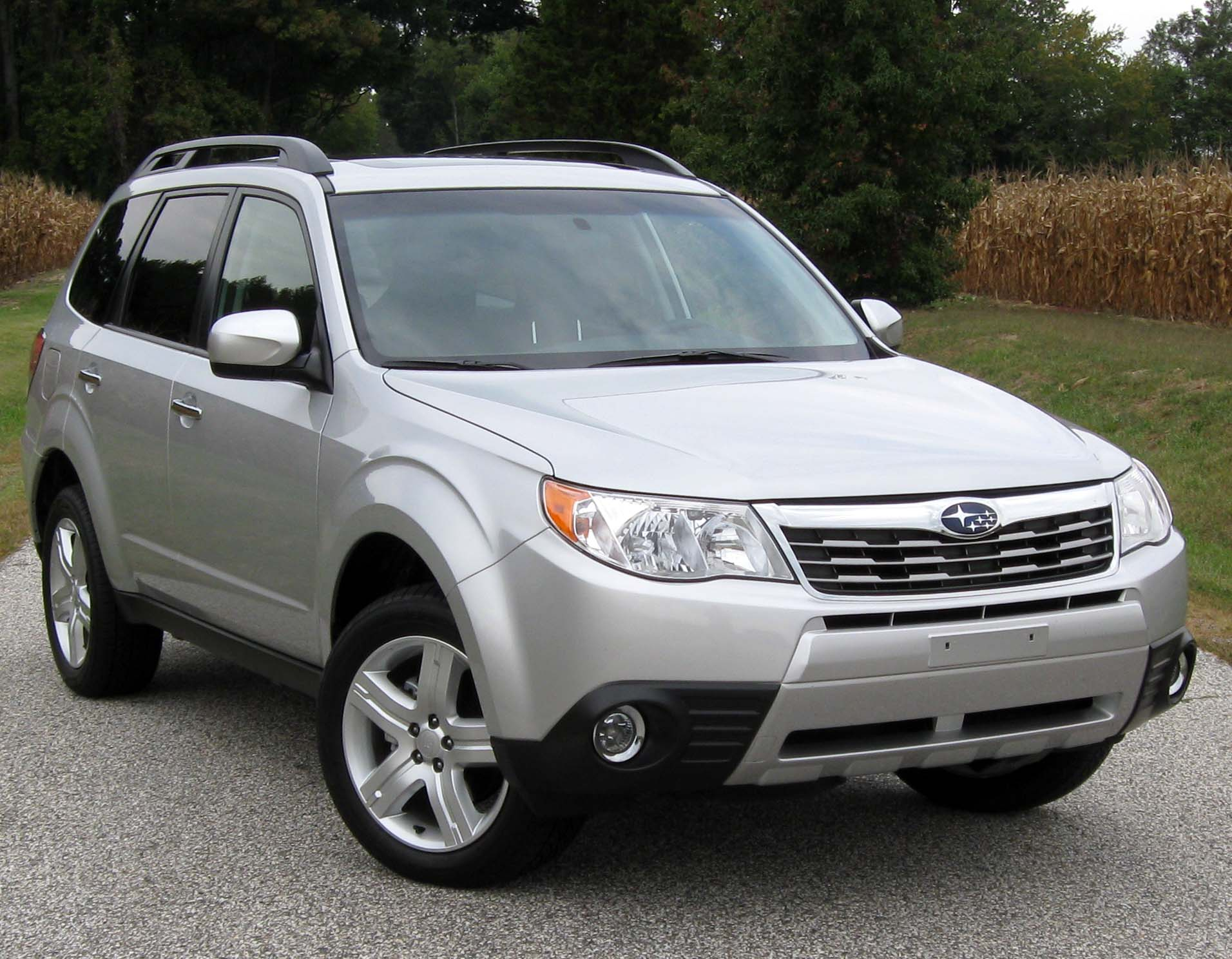 2010 Subaru Forester photographed in Nanjemoy, Maryland, USA.